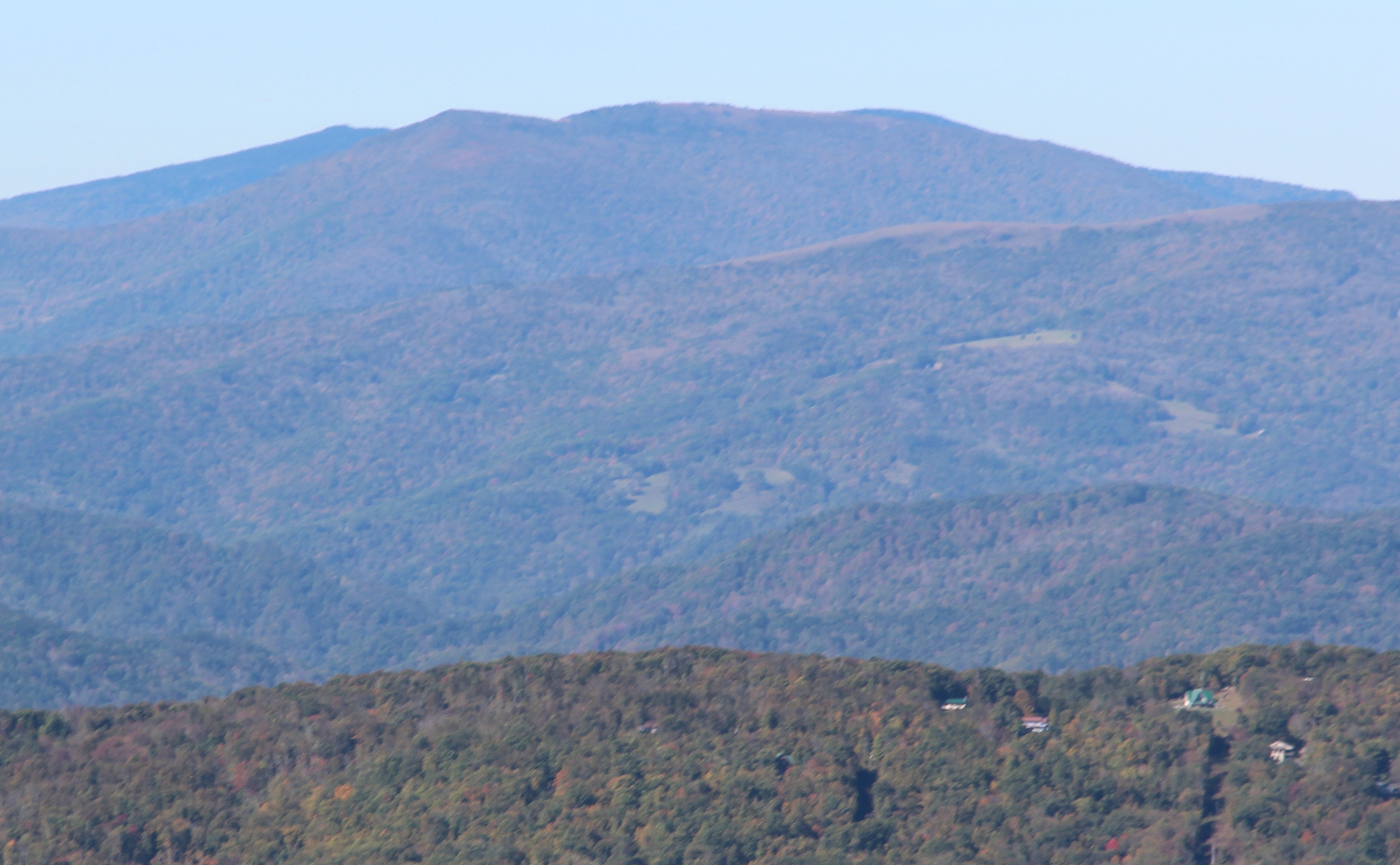 Grassy Ridge Bald viewed from Grandfather Mtn, Oct 2016